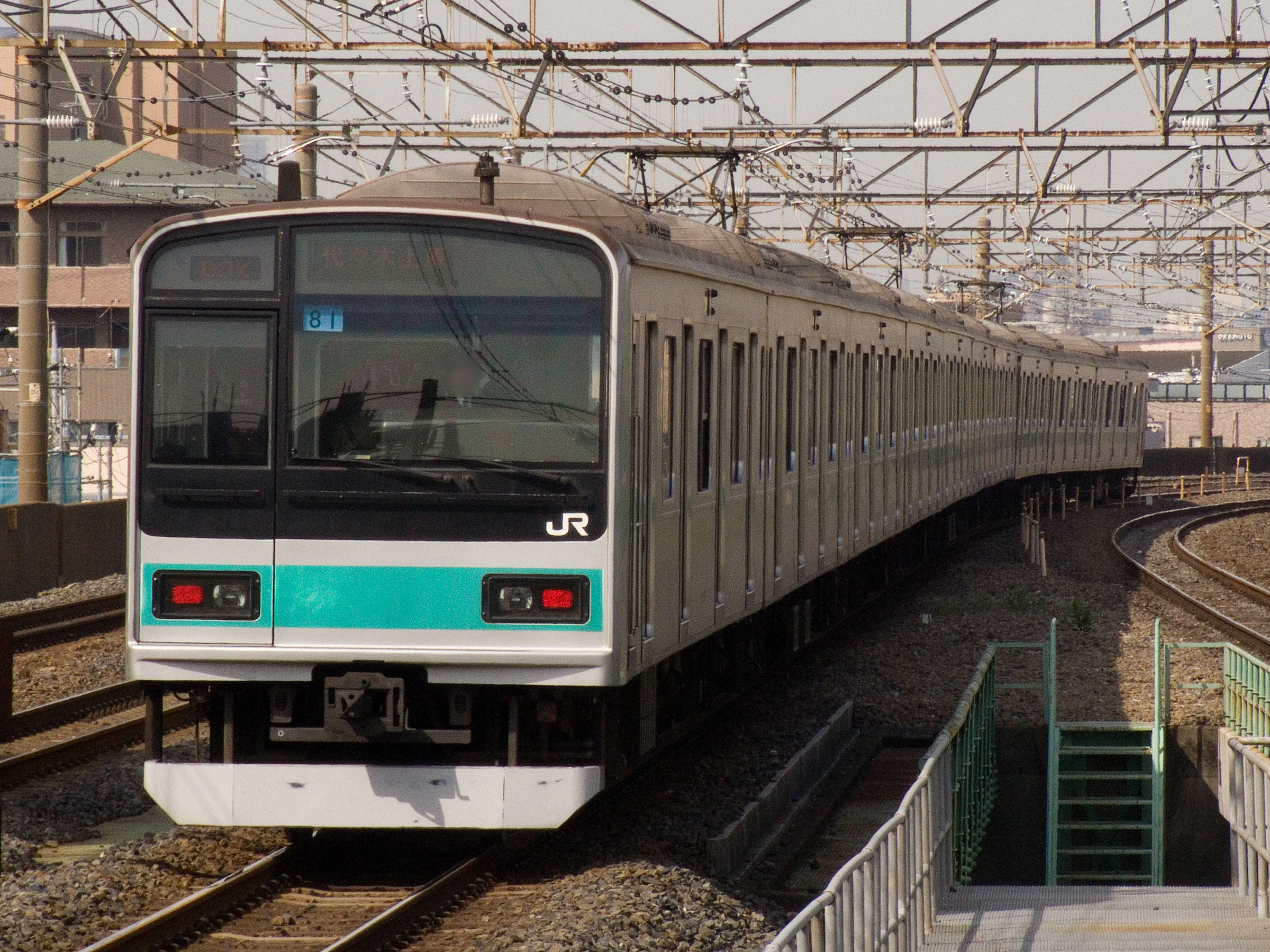 JR East 209-1000 series Joban Line EMU